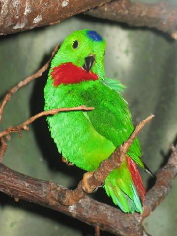 Description: Blue-crowned Hanging-parrot - Source: own work - Location: Central Park Zoo, New York - Author: self, User:Stavenn